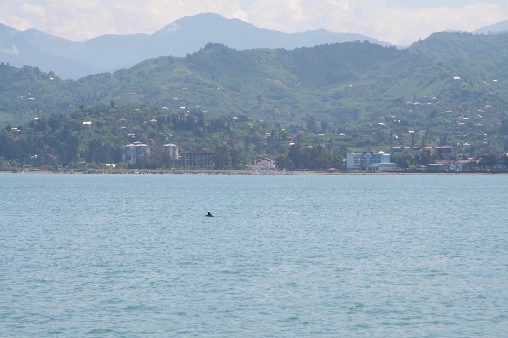 Dolphin in Black Sea near Batumi